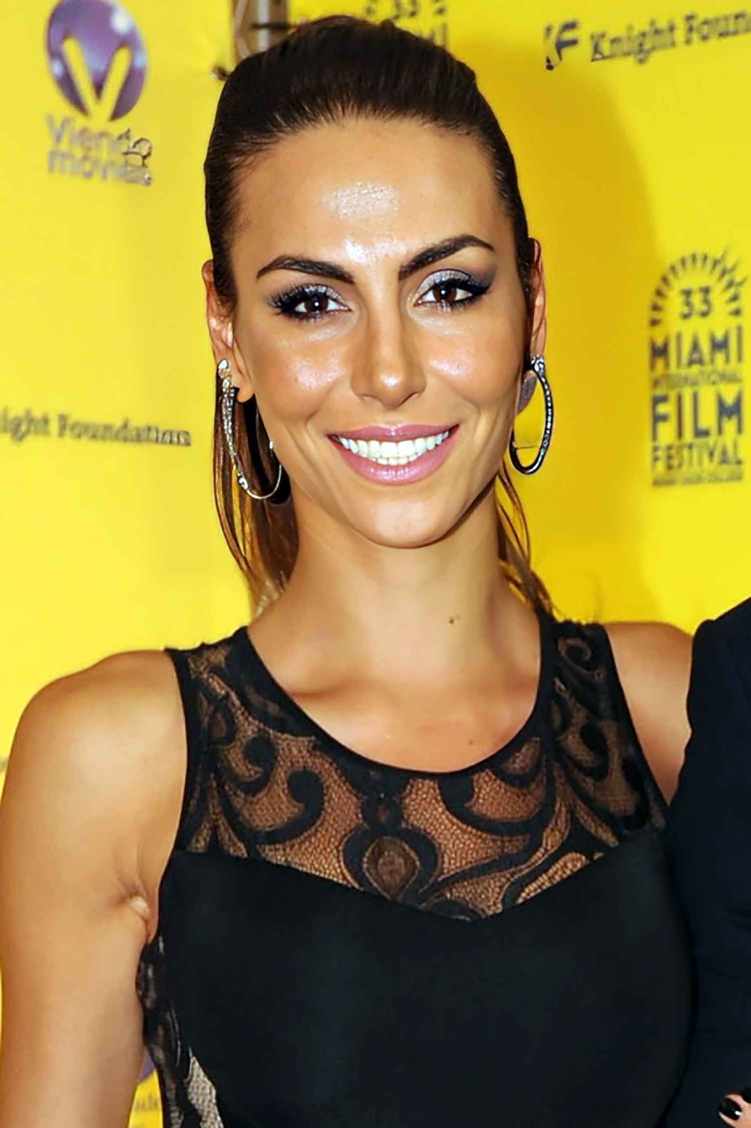 Mel Fronckowiak at the Miami Film Festival on October 25, 2015.